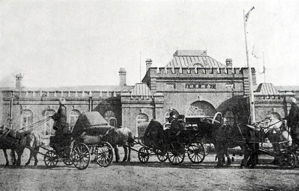 Jilin Railway Station 1912